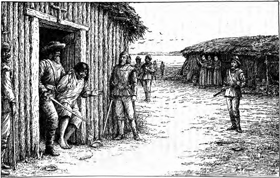 Don Fernando Rivera violates Church asylum at Mission San Diego de Alcalá on March 26, 1776.